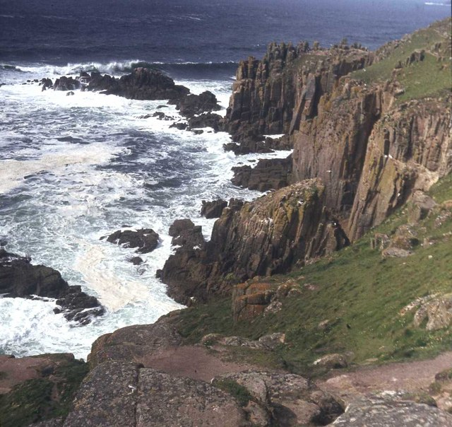 Cliffs at Land's End. The columnar granite of Dr Syntax's Head is the most westerly point on the English mainland (but not the most westerly on the British mainland).